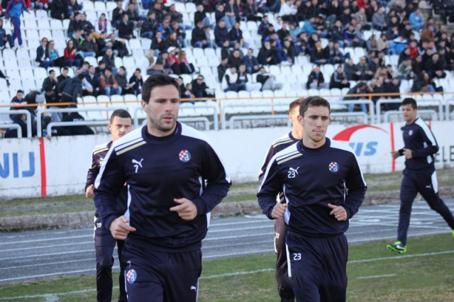 NK Dinamo Zagreb